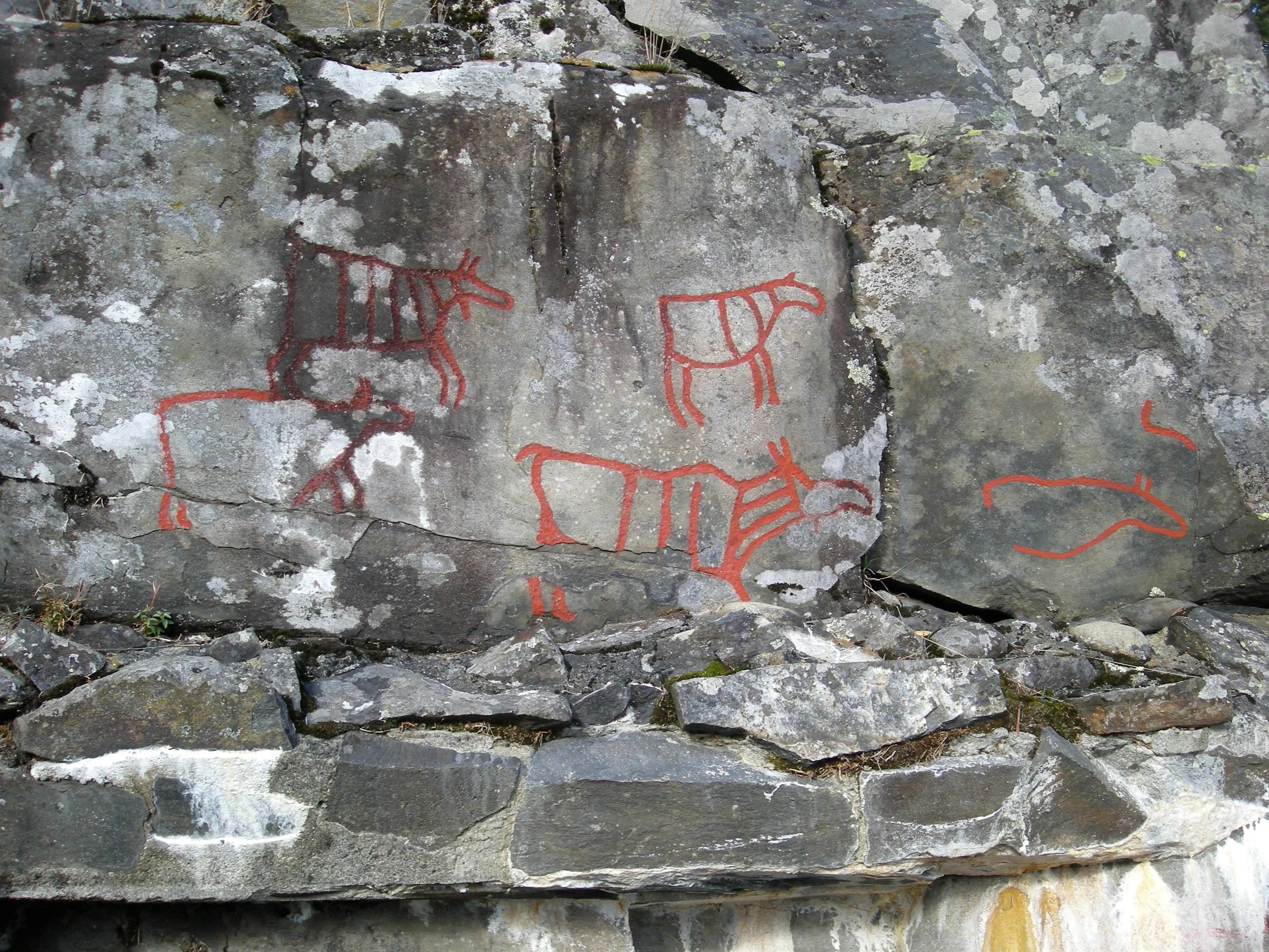 Petroglyphs at Drotten in Fåberg, outside Lillehammer